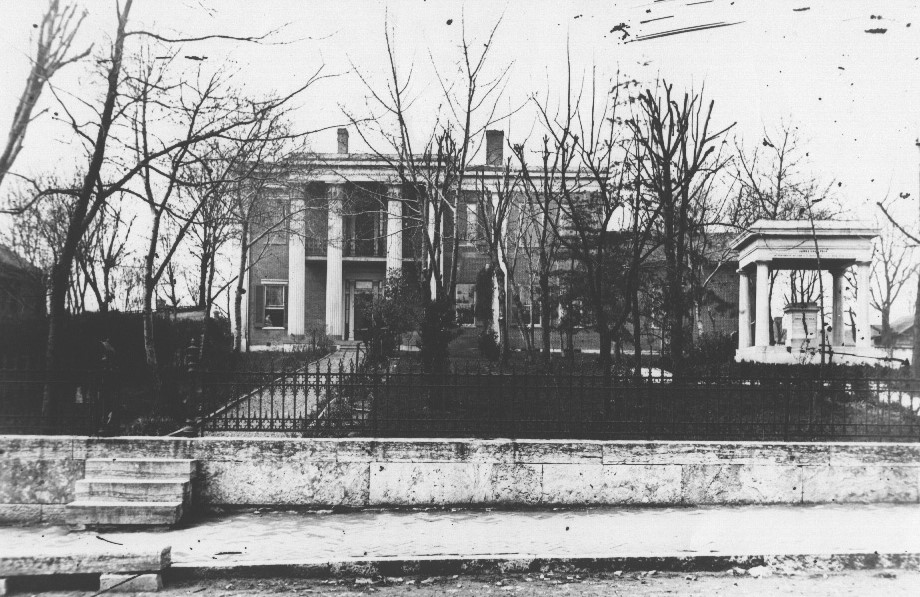 Exterior of Polk Place Late 1800s.